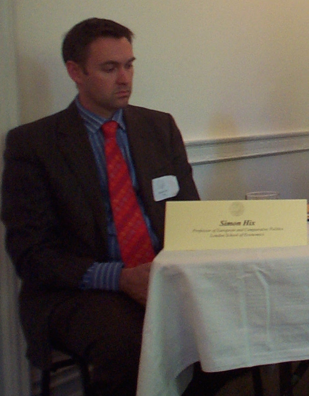 Simon Hix, British political scientist, at California House London 2006.